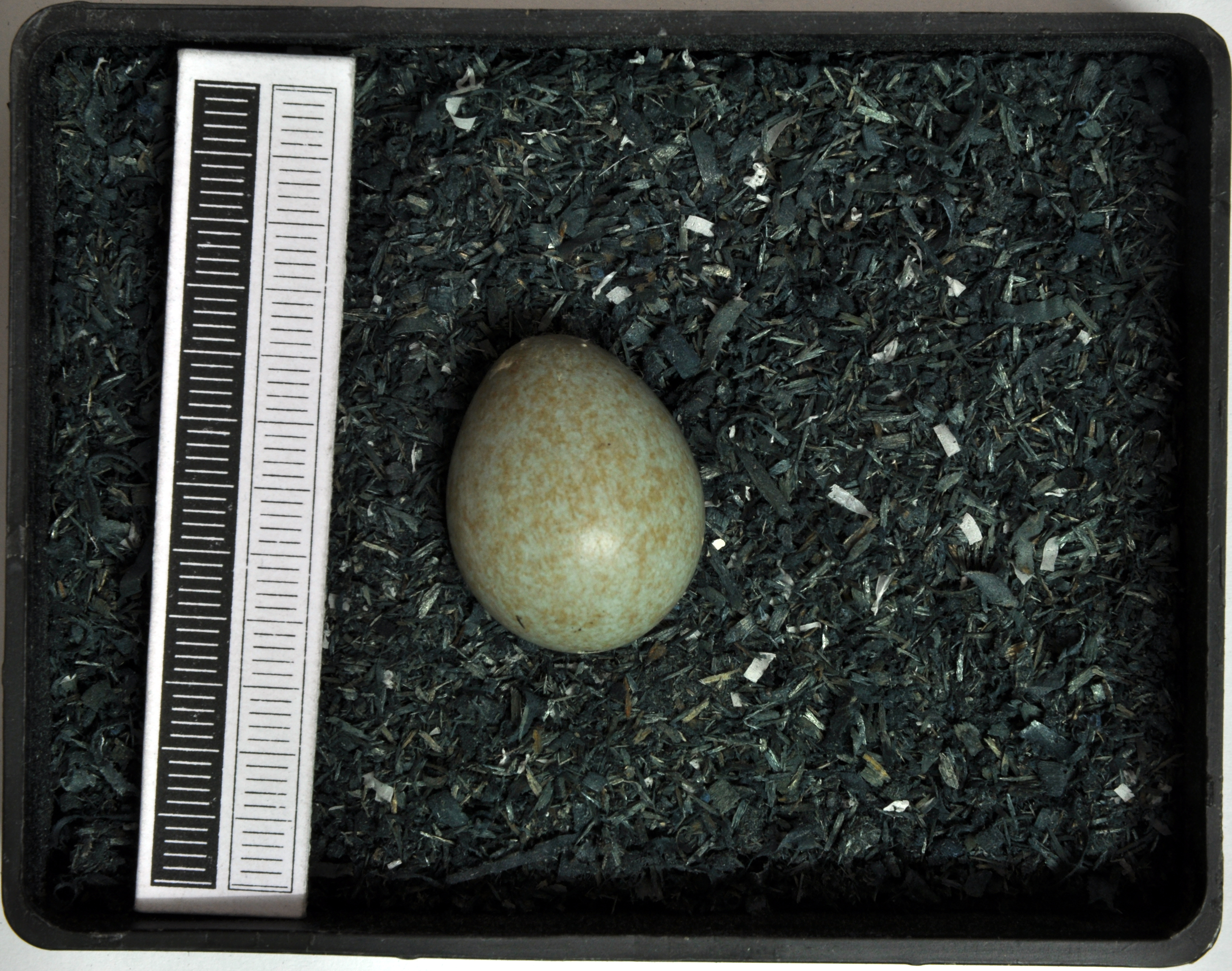 Redwing Turdus iliacus, egg, Coll. Museum Wiesbaden, Origin: Kättilsbyn, Sweden, 1964, leg. W. Abelmann